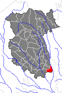 This map shows the area of the Gemeinde (municipality) Neudau in the Bezirk (district) Hartberg, Styria, Austria.